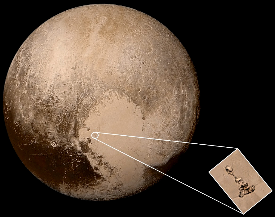 Four images recorded by Lorri instrument (Long Range Reconnaissance Imager) and with the help of the instrument Ralph, abordos the New Horizons probe, were superimposed in a spectacular composition in order to create the globe's vision of Pluto. The images were captured when the spacecraft was 450,000 kilometers away from the dwarf planet, and have features as small as 2.2 kilometers, which is highlighted area with nomenclature in Portuguese.